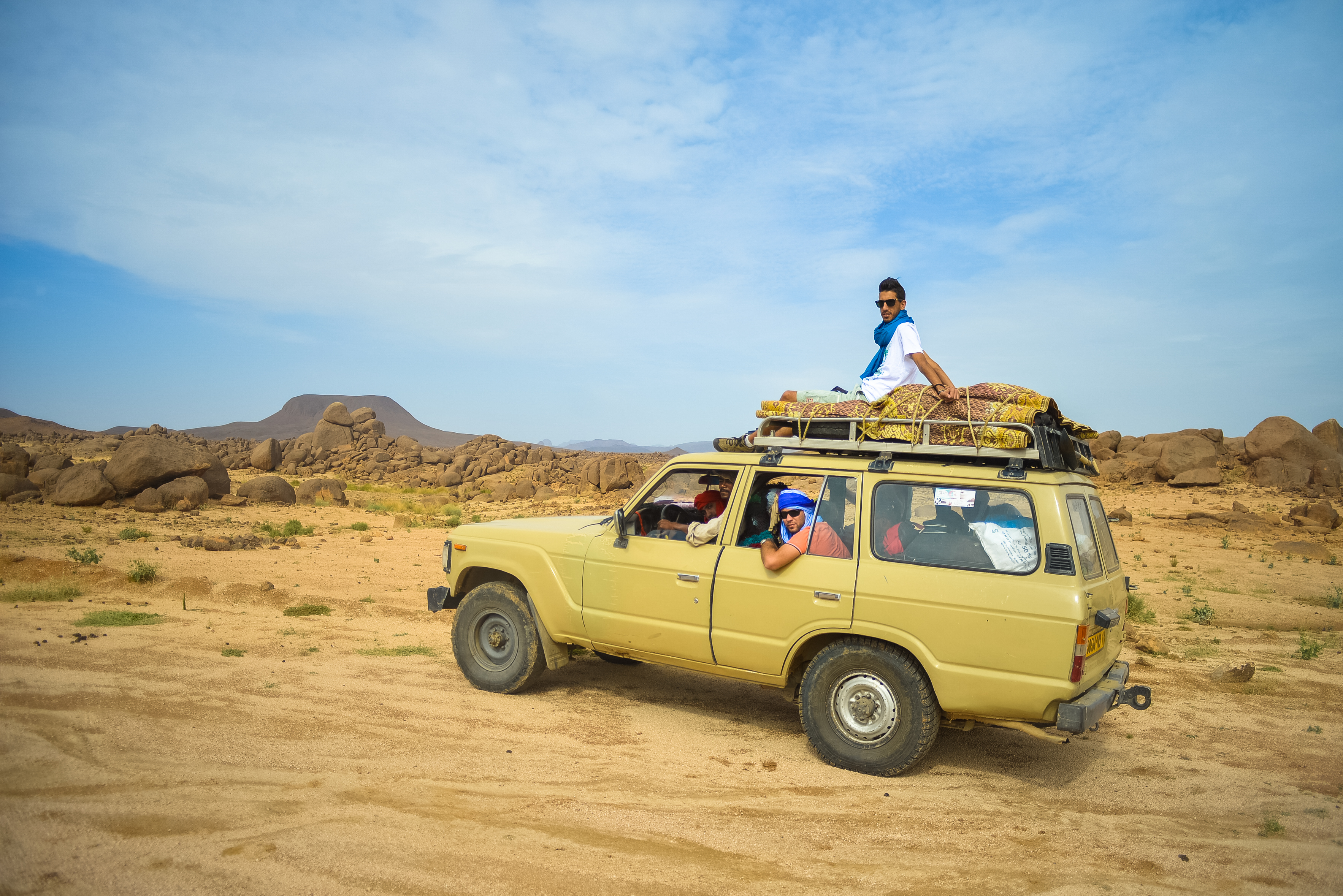 This is an image with the theme "Africa on the Move or Transport" from: Algeria